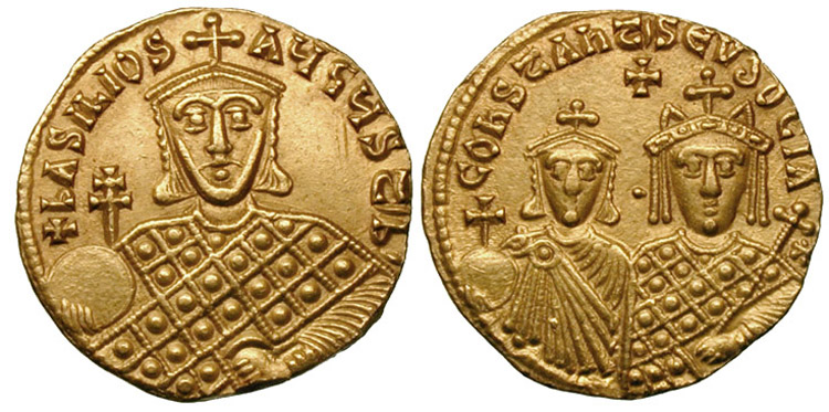 Basil I, AV Solidus. Constantinople mint. +bASILIOS AUGUST' b', crowned facing bust of Basil I, in loros, holding globe with patriarchal cross in right hand and akakia in left COhSTAhT S EVdOCIA, crowned facing busts of Constantine, beardless, on left, and Eudocia Ingerina on right: Constantine wears chlamys and holds globus cruciger, while his stepmother wears loros and holds cruciform scepter; between their heads, cross. This is an unusual issue in that it portrays the empress Eudocia. If the date of AD 882 is correct, this is a memorial issue struck at the time of her death. As an alternative, Grierson has suggested it may be a coronation issue from 868.